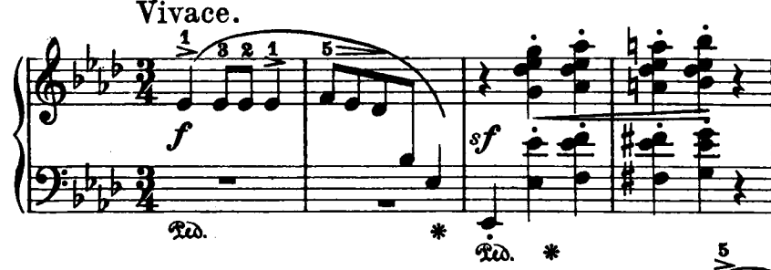 Excerpt from Chopin's Op 34, containing three waltzes.